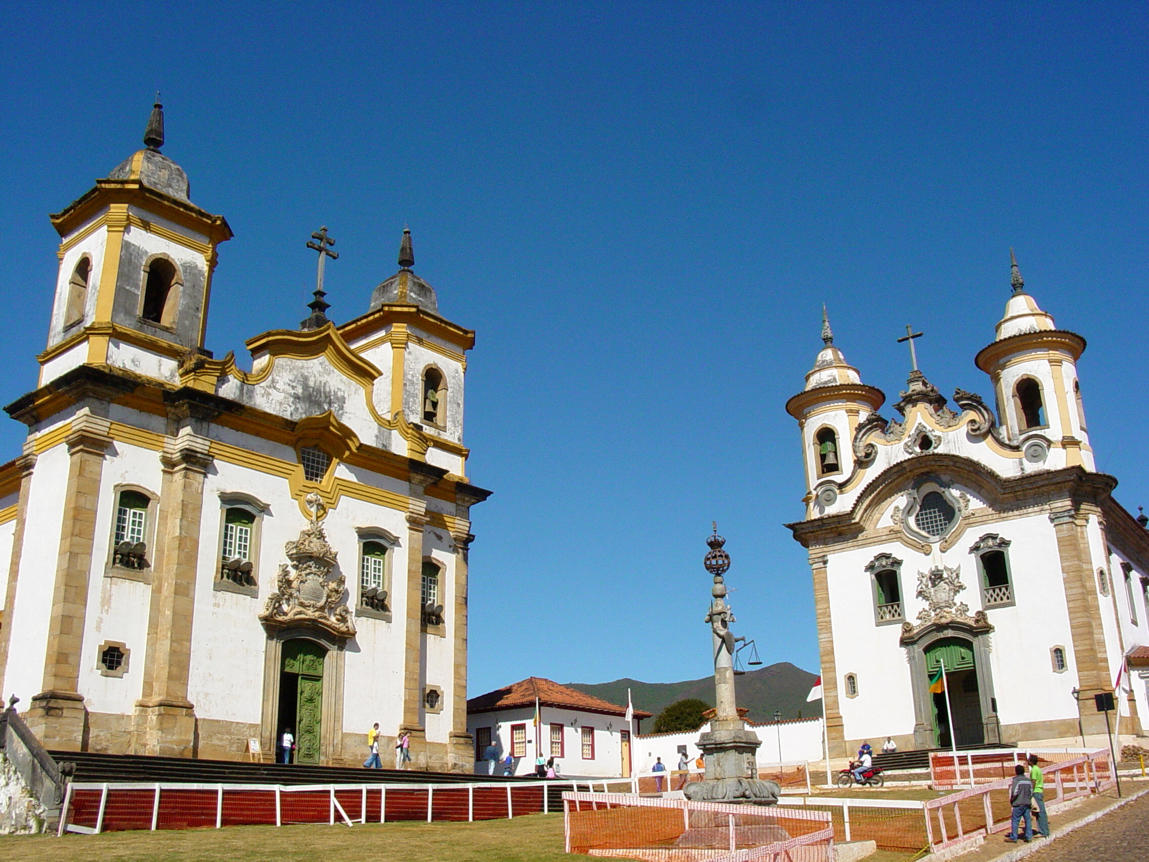 Churches in Mariana, Minas Gerais state, Brazil. July 2006.